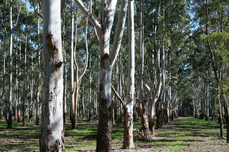 Box Hill NSW AustraliaBox Wood Plantation